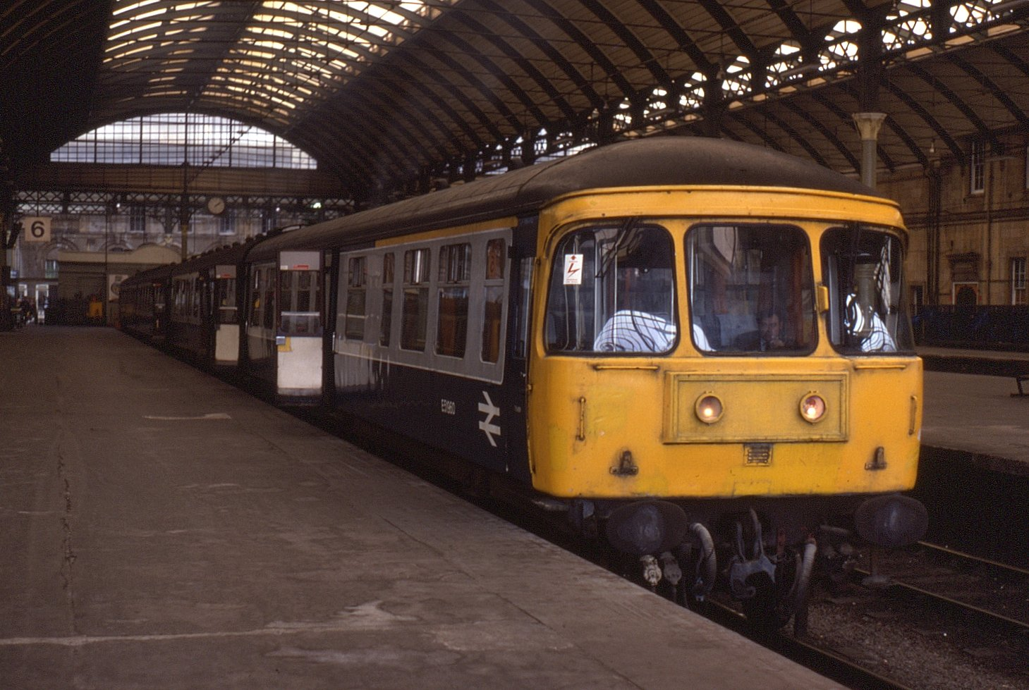 These stylish looking Class 124 DMUs with wrapped round windows were built in the early 1960s by British Rail Swindon Works. Originally 6-car sets complete with buffet cars, these were utilised regularly on the Trans-Pennine routes. Based at the now closed Botanic Gardens depot in Hull. Seen here at Hull Paragon is one such example on 4 September 1983.